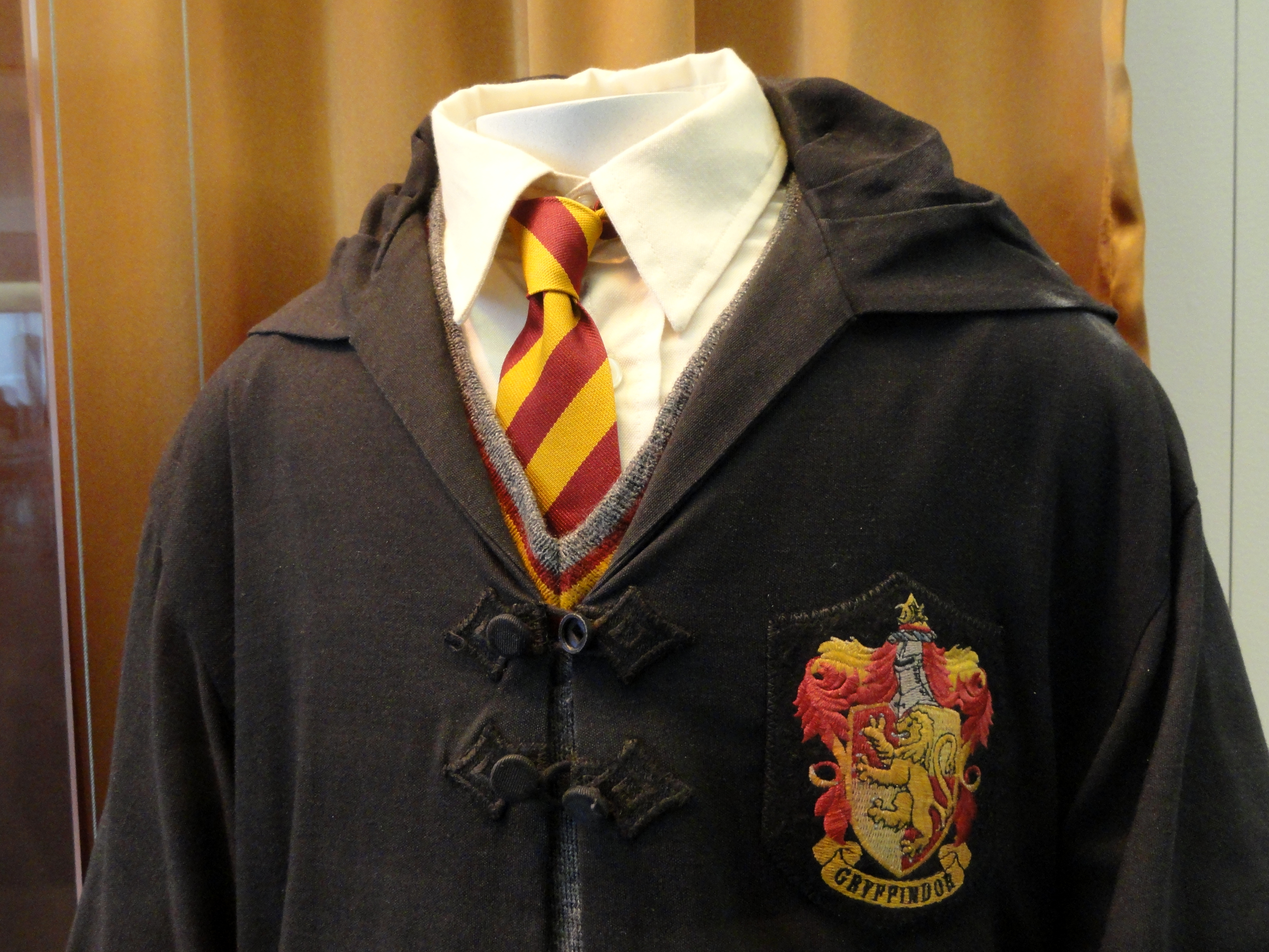 Exhibit in the National Museum of American History, Washington, DC, USA. This item is in the public domain because it is property of the national museum.